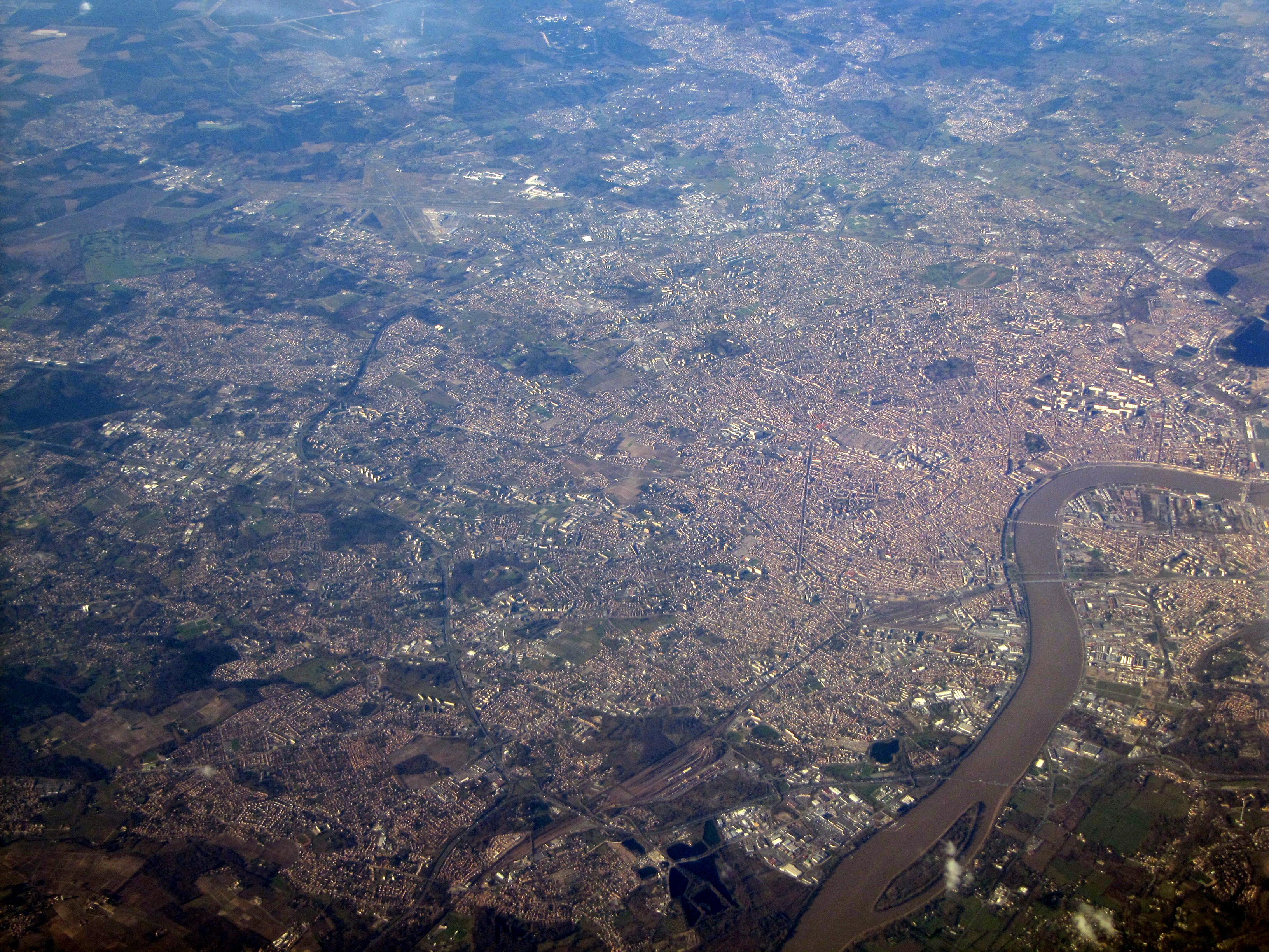 Bordeaux aerial view